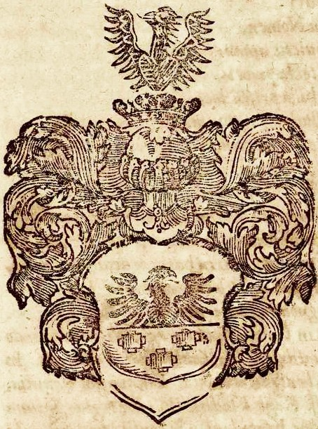 Sulima coat of arms by Szymon Okolski